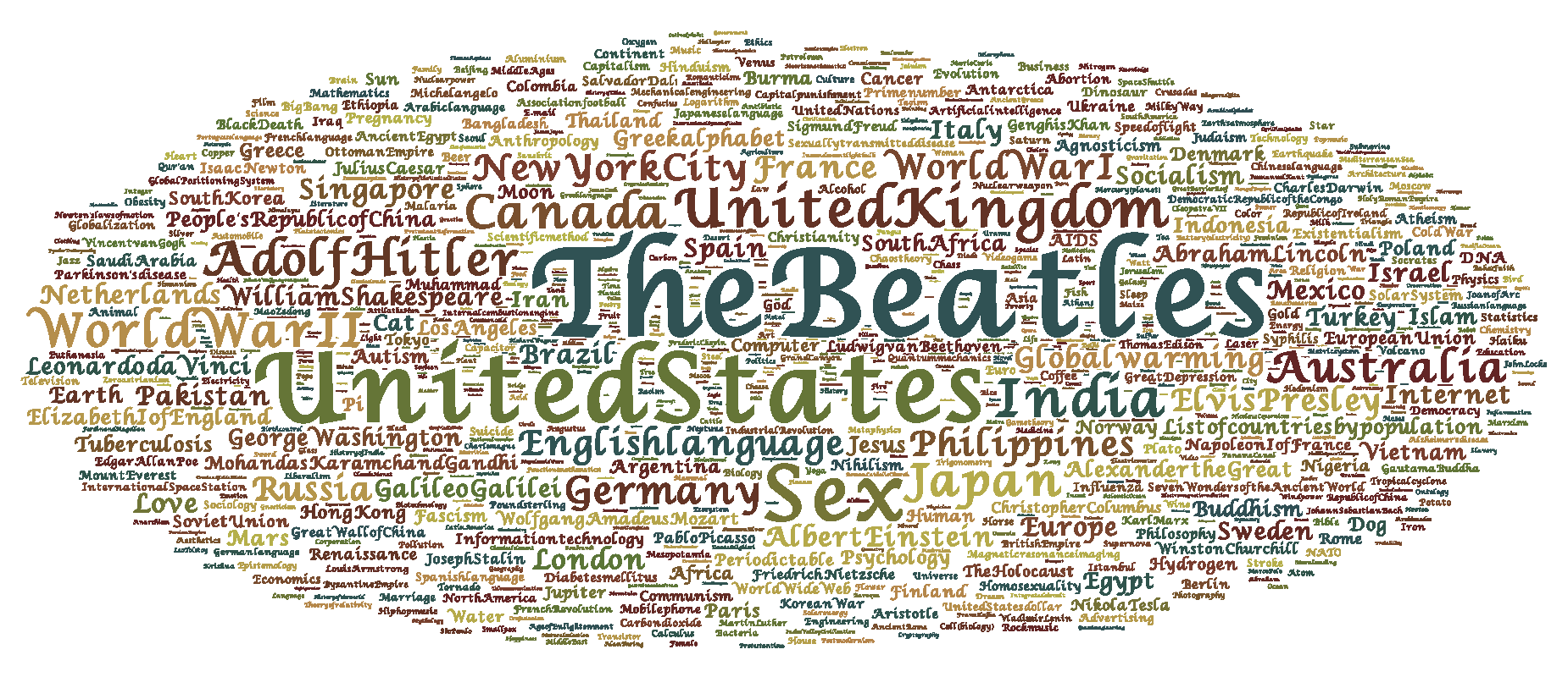 Wordle constructed from Top 1000 vital articles sorted by number of views. Available at Wordle gallery.